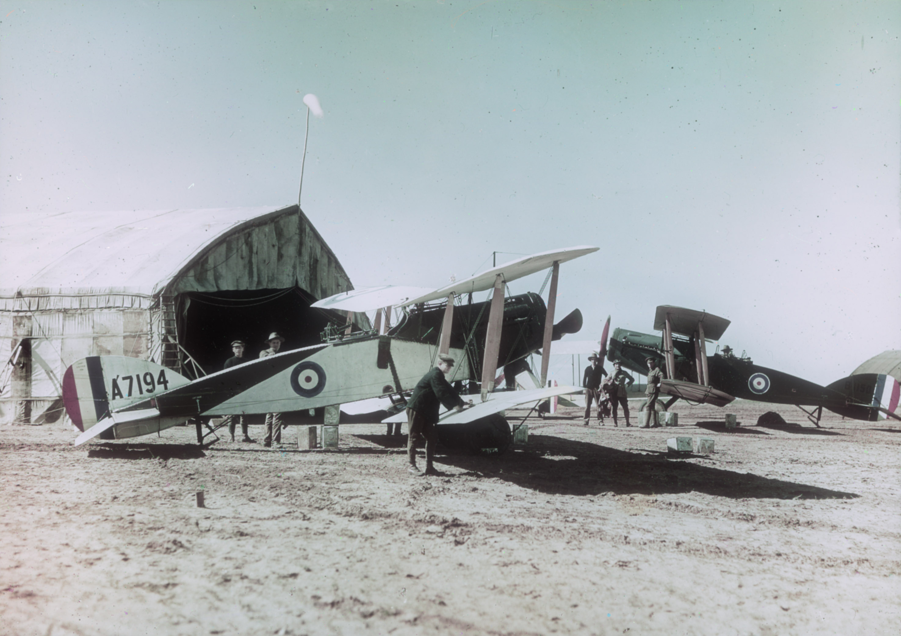 Palestine: Mejdel Jaffa Area, Mejdel. 1st Squadron Australian Flying Corps. Bristol F2B fighters A7194 (P) in half white colour scheme and B1150 in standard scheme. This image is a colour Paget Plate.